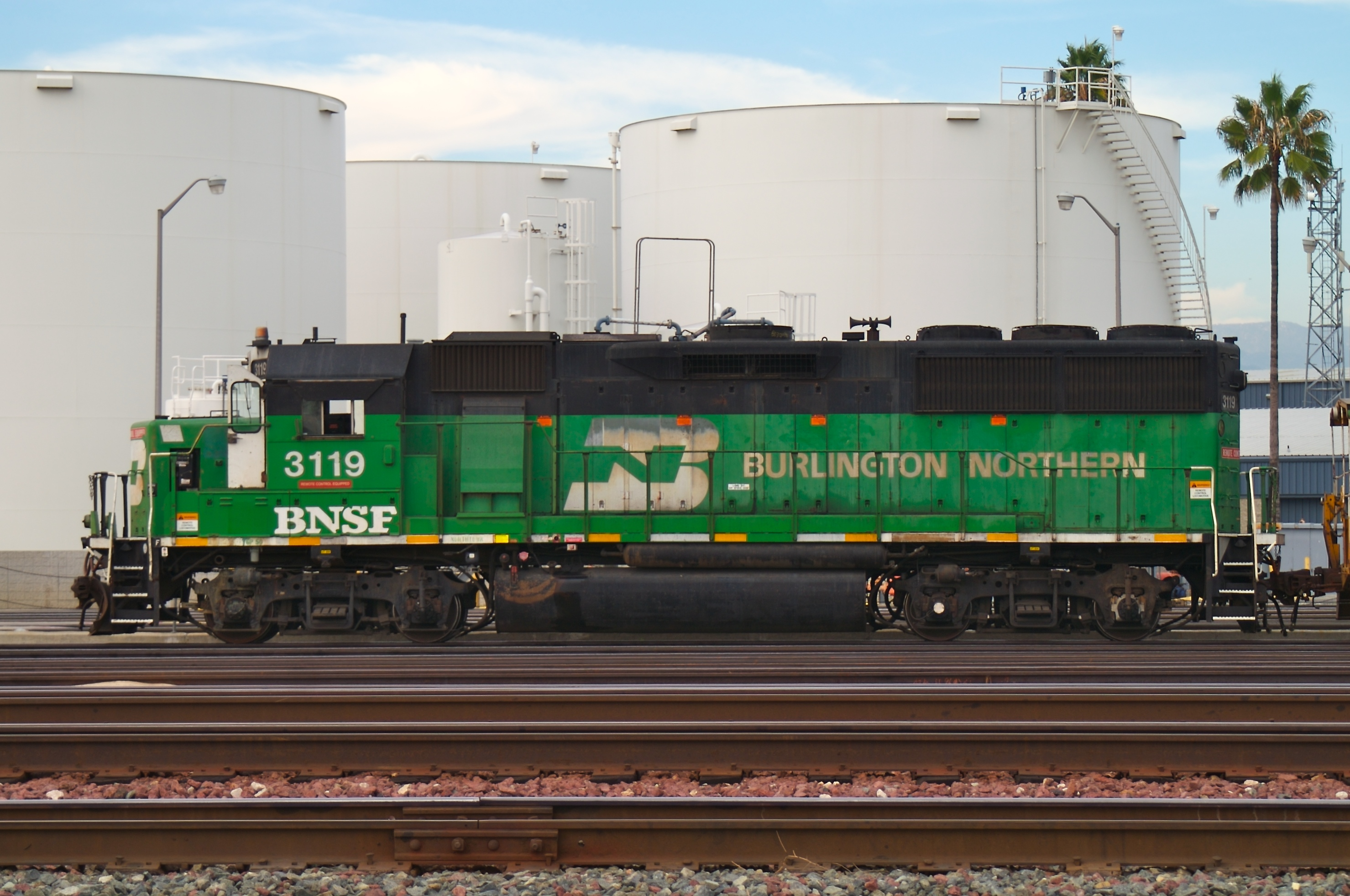 EMD GP50 diesel locomotive of the BNSF (#3119) photographed at Commerce, California, USA.